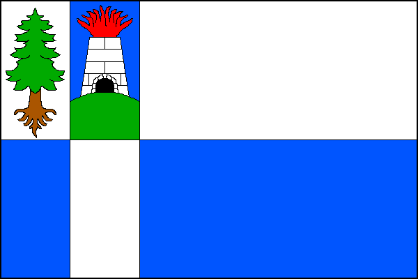 Municipal flag of Smolné Pece village, Karlovy Vary District, Czech Republic.